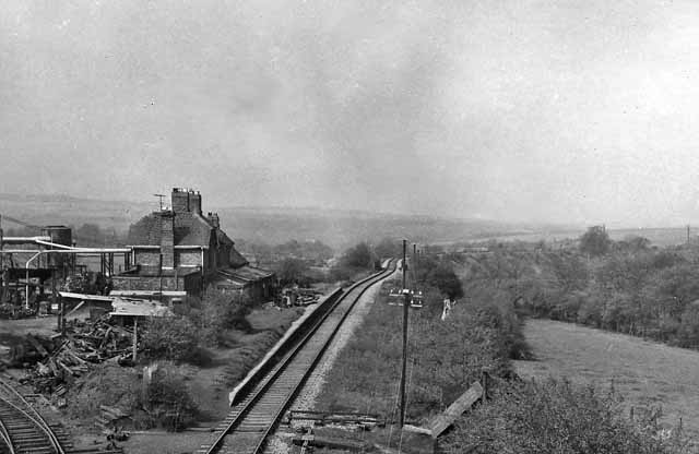 Byers Green Station (remains). View northward, towards Spennymoor and Ferrhill; ex-North Eastern, Ferryhill - Spennymoor - Bishop Auckland line. The station closed 4/12/39, when the passenger service from Ferryhill was cut back to Spennymoor. Goods was handled at Byers Green until 2/6/58; the photograph shows that in 1965 the line was still in use from Spennymoor through towards Bishop Auckland. (This was in fact the third station that had existed at Byers Green - the history is complex).